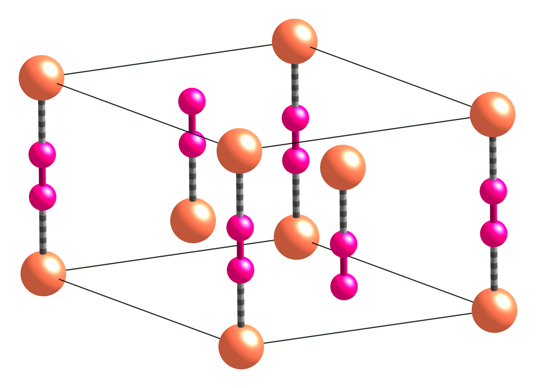 Ball-and-stick model of the unit cell of the alpha polymorph of copper(I) cyanide, α-CuCN. Colour code: Copper, Cu: orange-pink Carbon, C: pink Nitrogen, N: pink The orientations of the cyanide ions in the linear (CuCN)∞ chains are disordered, so it is not possible to distinguish carbon from nitrogen in the crystal structure. Crystal structure from Inorg. Chem. (2002) 41, 4990–4992. Model constructed and image generated in CrystalMaker 8.1.